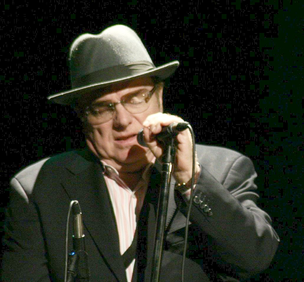 Van Morrison